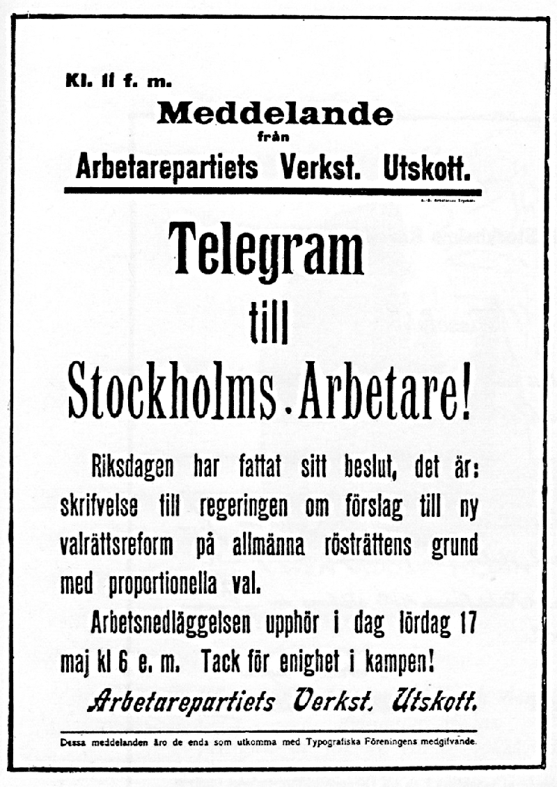 Poster. End of general strike 1902